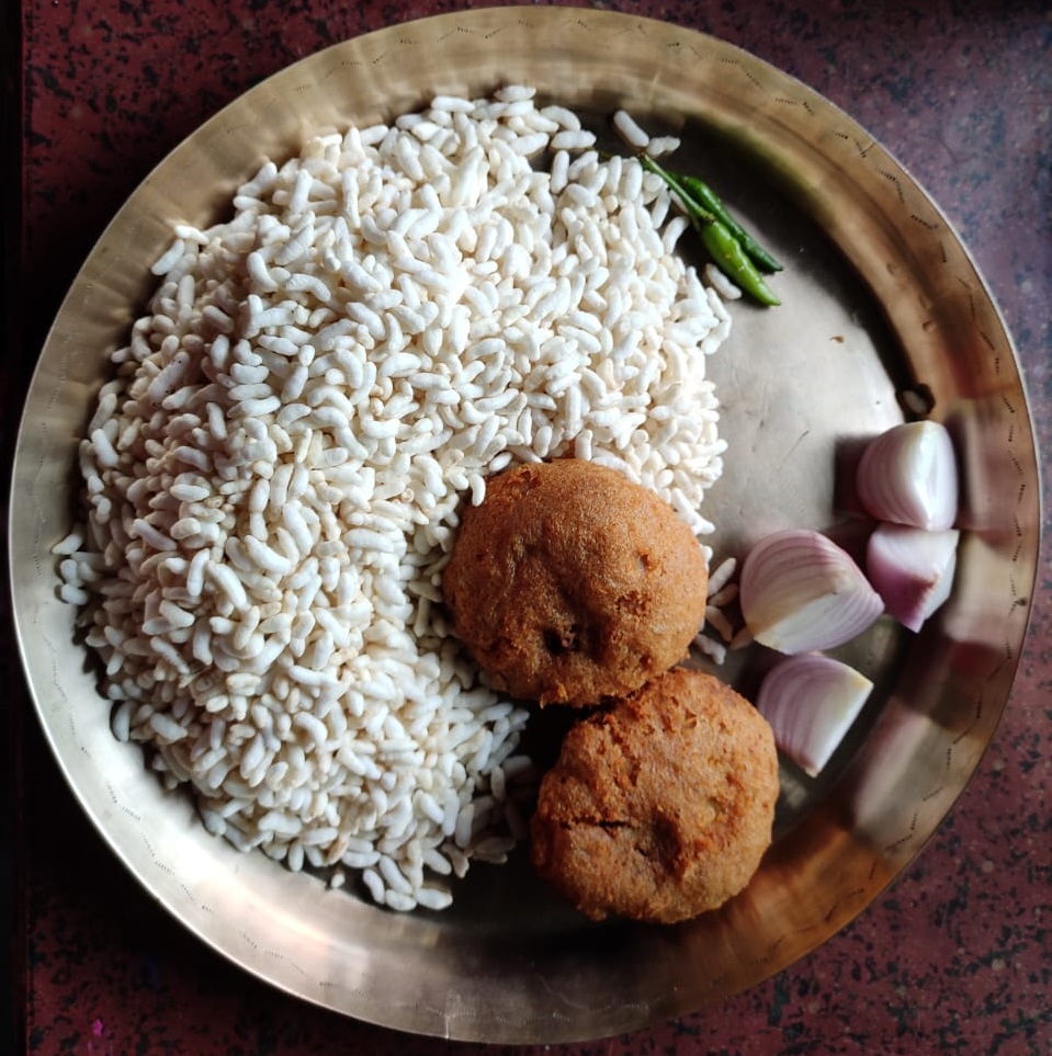 Food